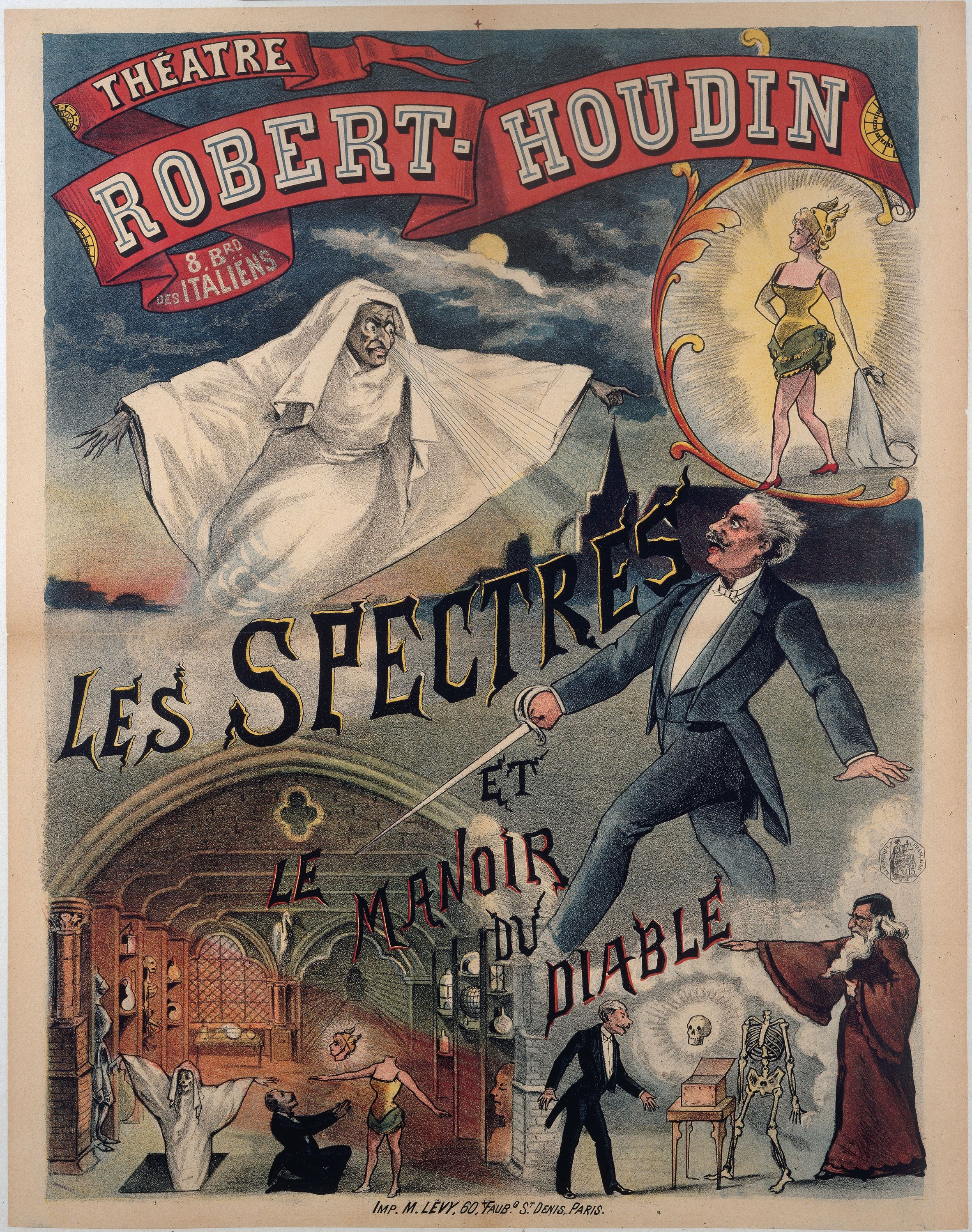 Poster of the movie Le Manoir du diable